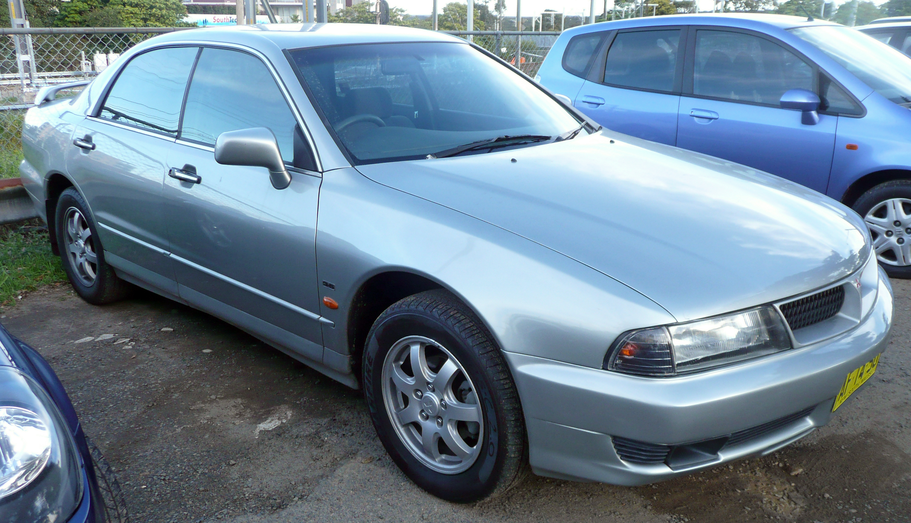 2000 Mitsubishi Magna (TH) V6 Si sedan. Photographed in Sutherland, New South Wales, Australia.